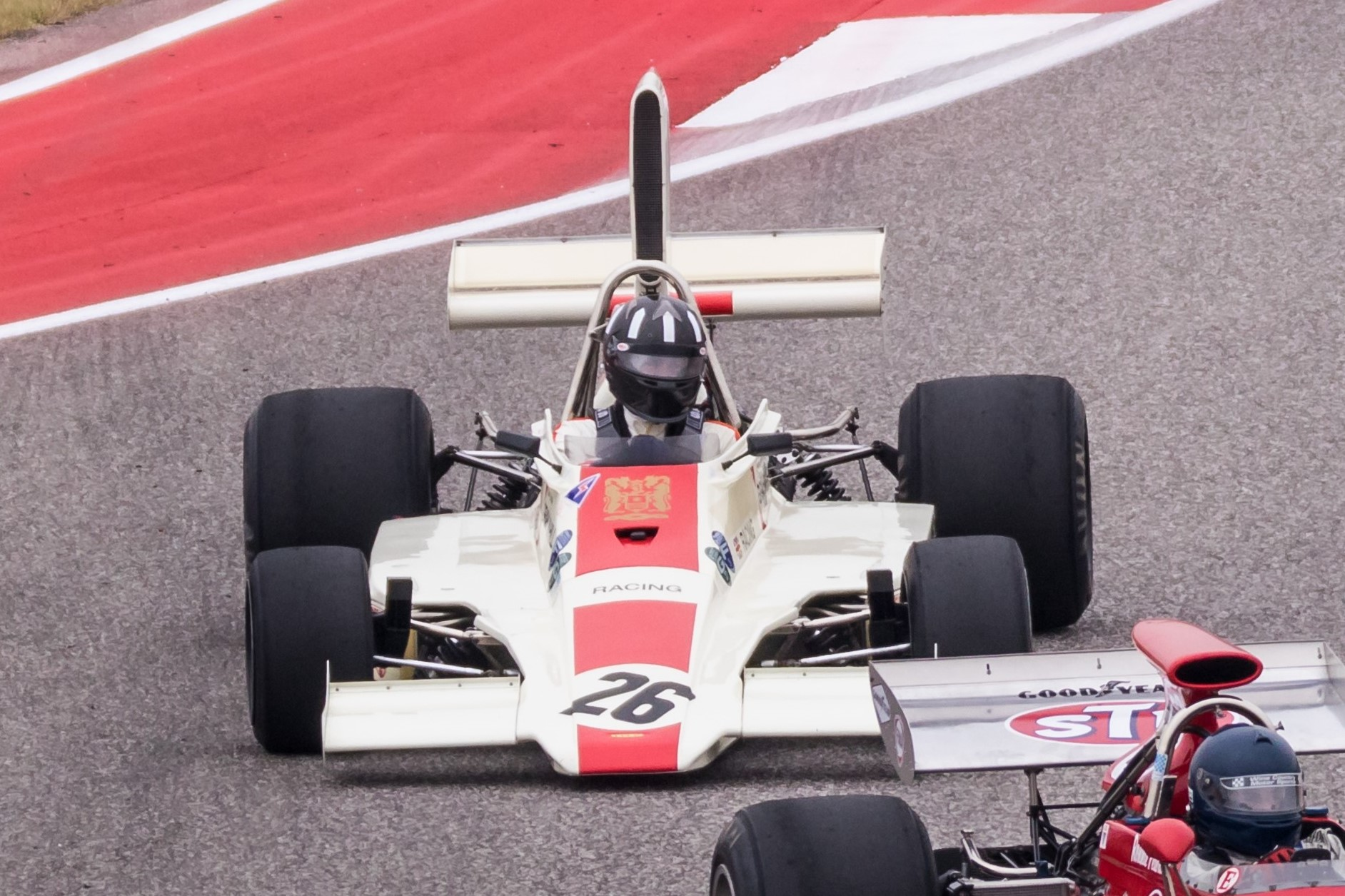 2017 FIA Masters Historic Formula One Championship, Circuit of the Americas.